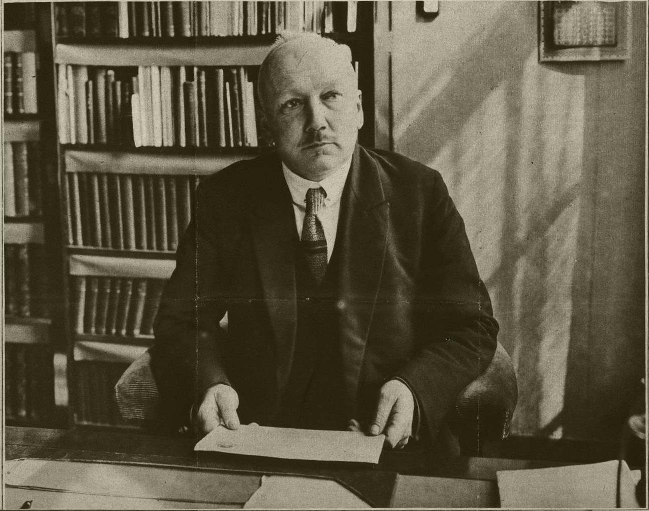 Tietse Pieter Sevensma. Librarian in Rotterdam, Amsterdam, Leiden, Geneva. Secretary General of IFLA